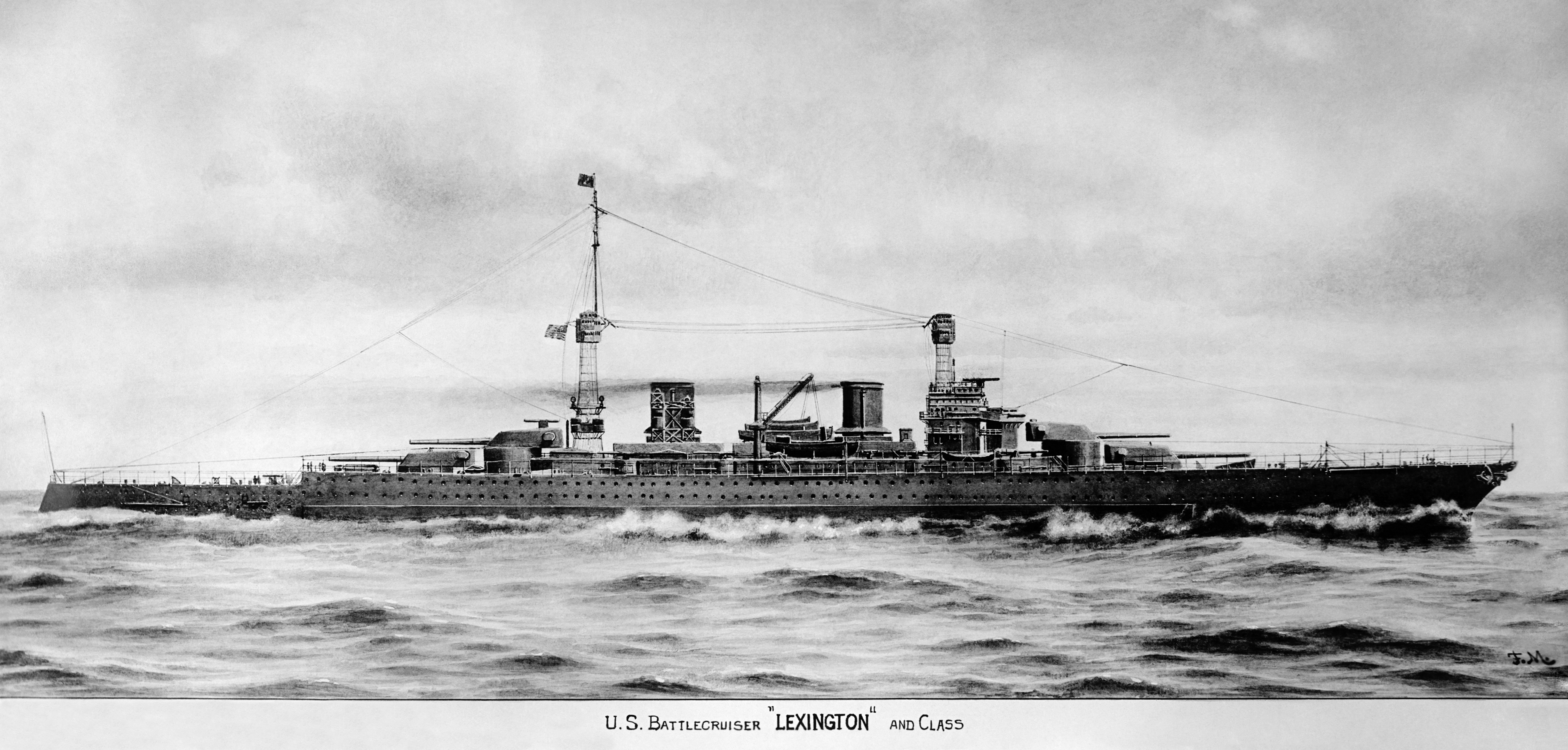 "Artwork by F. Muller, circa 1919, depicting the definitive design for these ships, whose construction was cancelled under the Washington Naval Limitations Treaty of 1922."